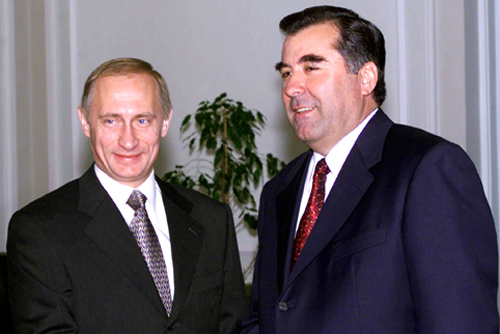 MINSK. President Vladimir Putin meeting with Tajik President Emomali Rakhmonov.